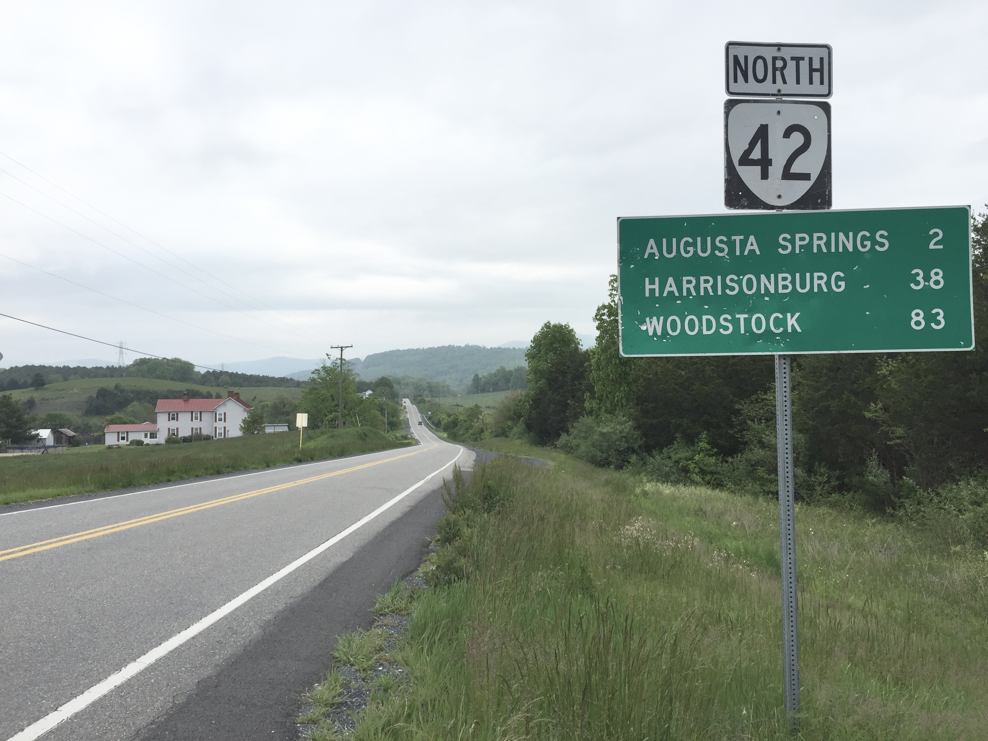 View north along Little Calf Pasture Highway (Virginia State Route 42) near Sweet Spring Lane in Craigsville, Augusta County, Virginia